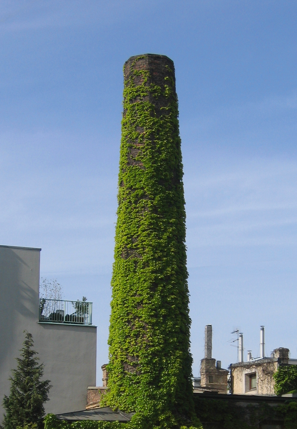 Old brick-type chimney of a former factory, almost totally covered by a climbing plant (presumably Boston ivy). Located in Meidling, Vienna